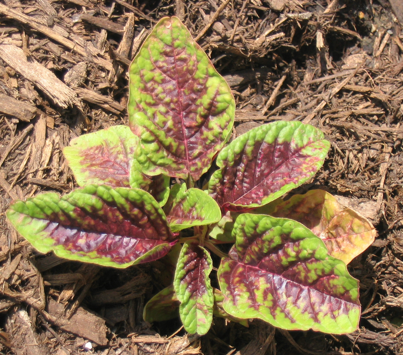 Amaranthus tricolor From my garden.